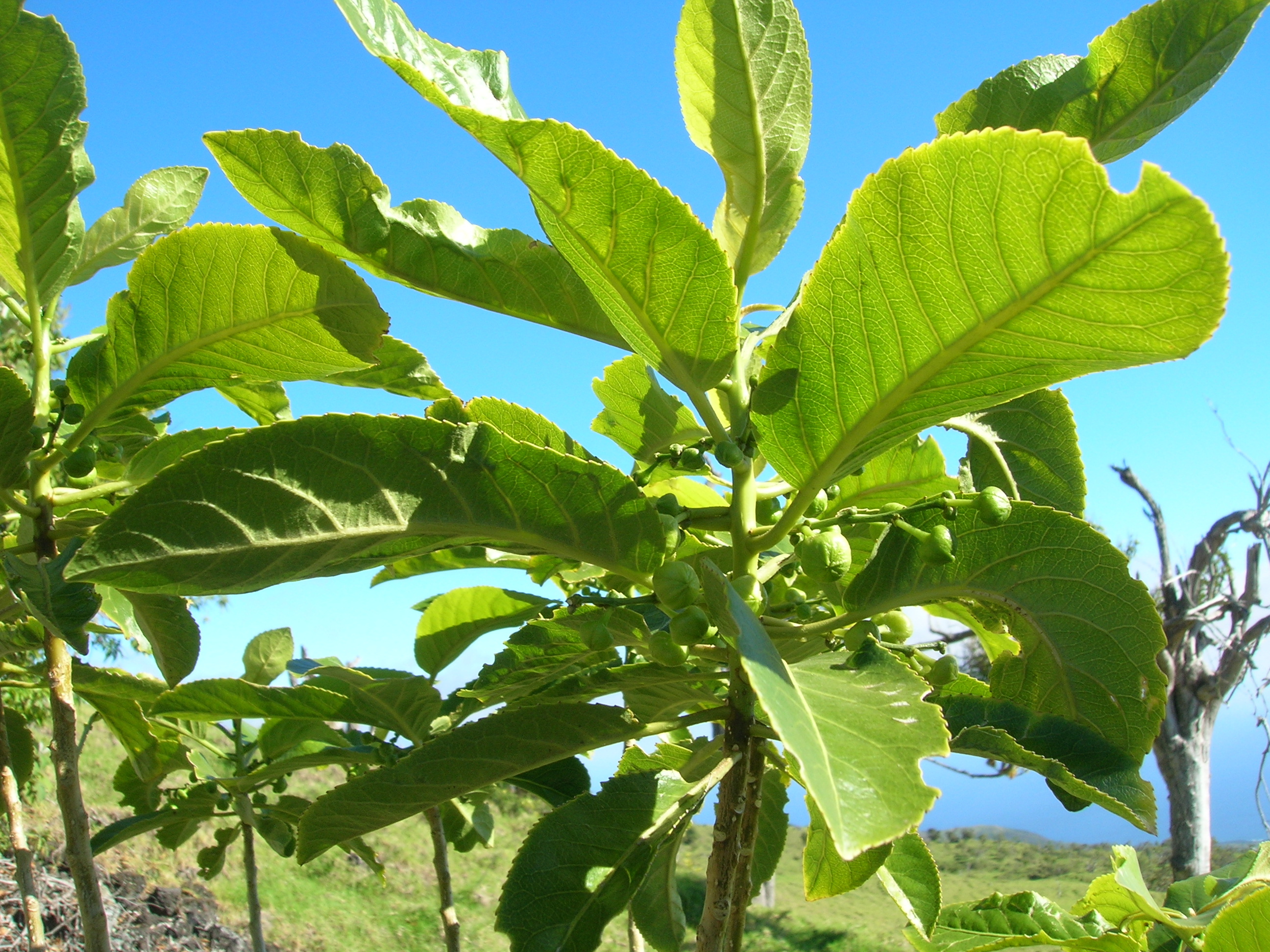 Claoxylon sandwicense (fruit). Location: Maui, Auwahi